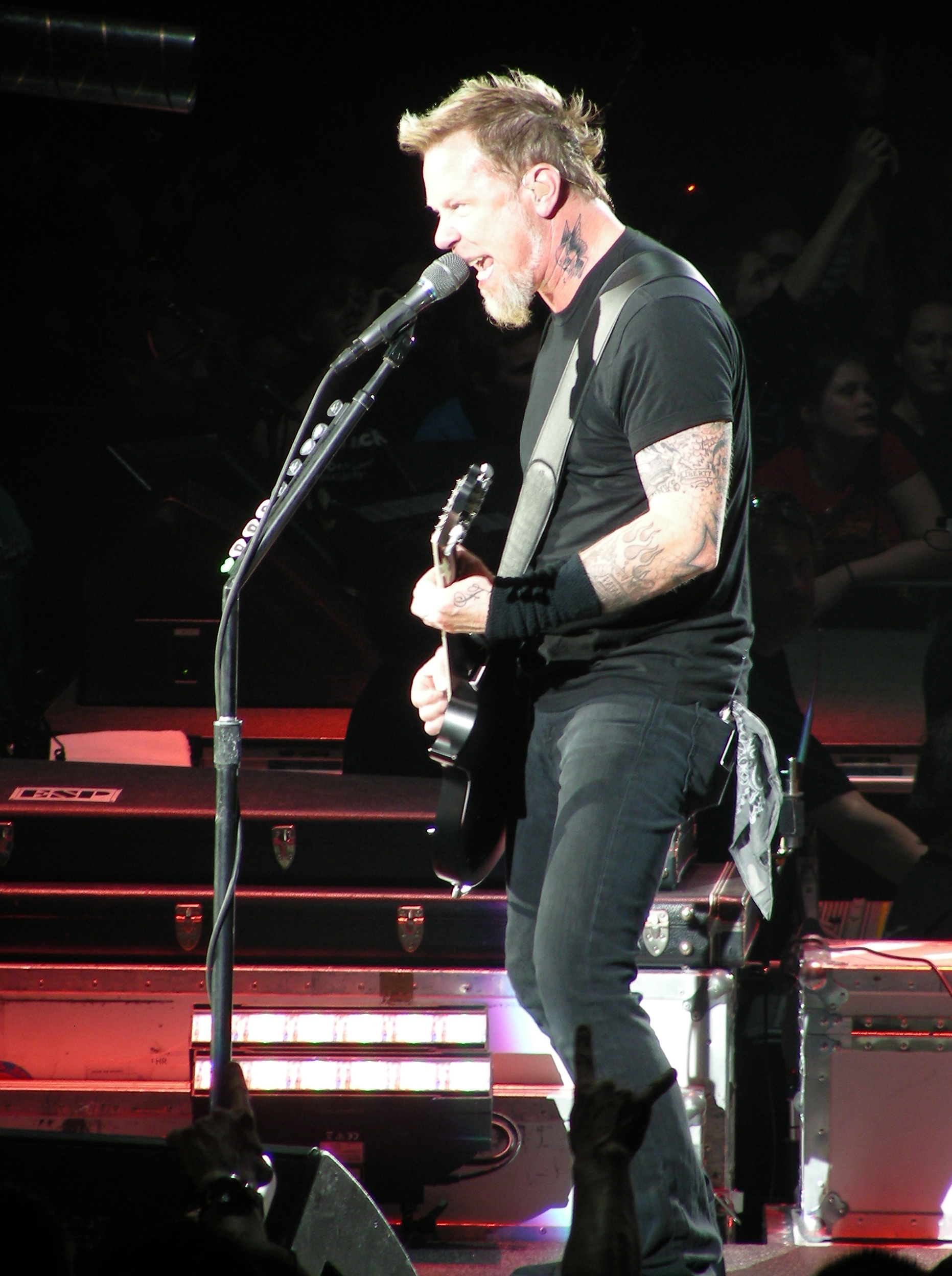 James Hetfield at Metallica concert on 2009-03-30 (Death Magnetic Tour, Ahoy Rotterdam)